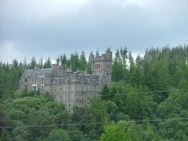 Carbisdale Castle Carbisdale Castle Youth Hostel, view from the A836